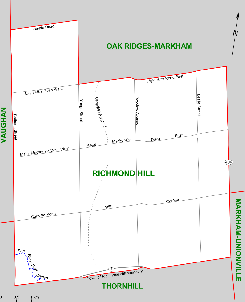 Map of the Ontario federal and provincial riding of Richmond Hill (boundaries defined in 2003, adopted federally in 2004 and provincially in 2007)